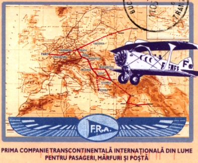 Source: Post of Romania